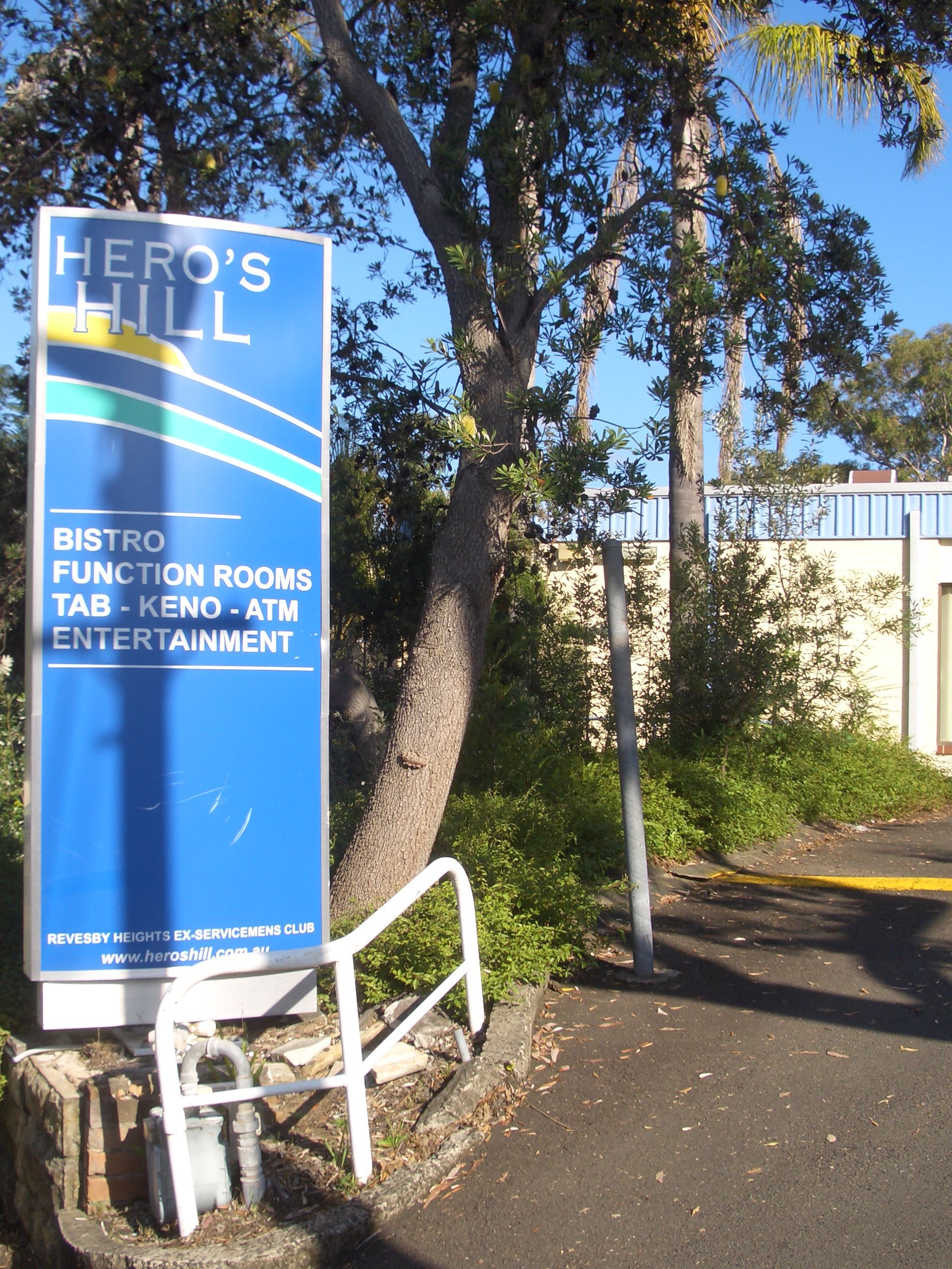 Hero's Hill, Revesby_Heights